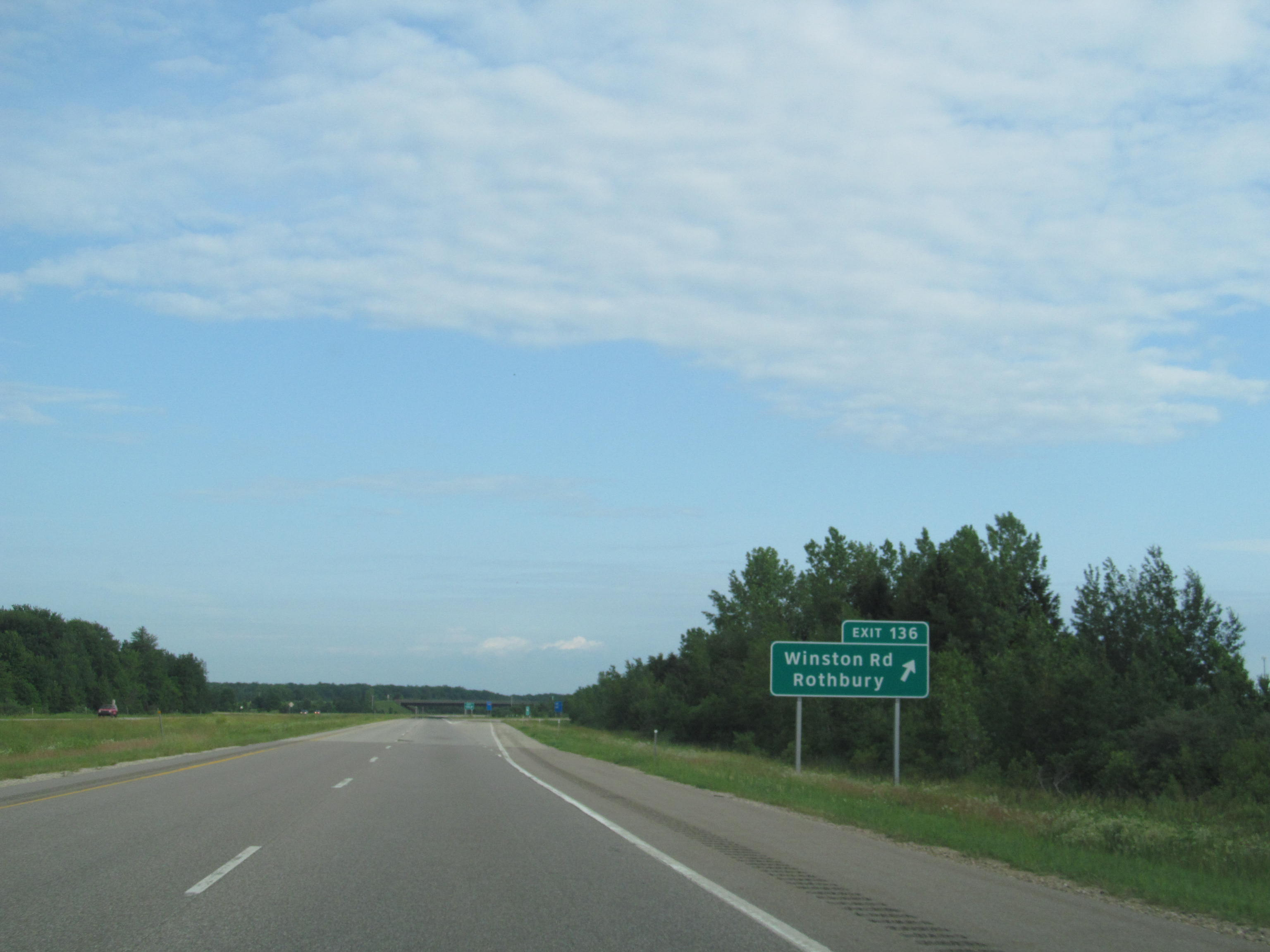 US Highway 31 at the Winston Road exit near Rothbury